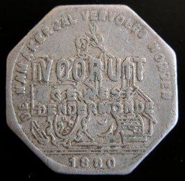 Picture of a food token from Dendermonde (belgium) 1880. Back side. The date is not the date the token was issued (aluminium tokens were not issued by Vooruit until 1923), but the foundation year of the cooperation "Vooruit"